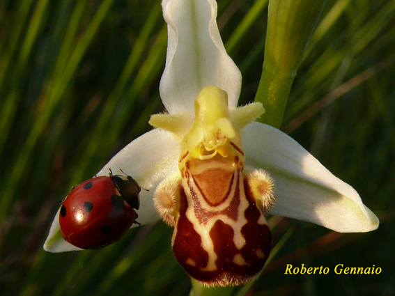 Orchidea ophrys apifera